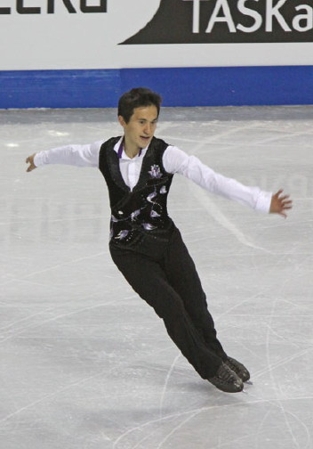 Patrick Chan(CAN) during his short program at the 2009 Four Continents Championships.